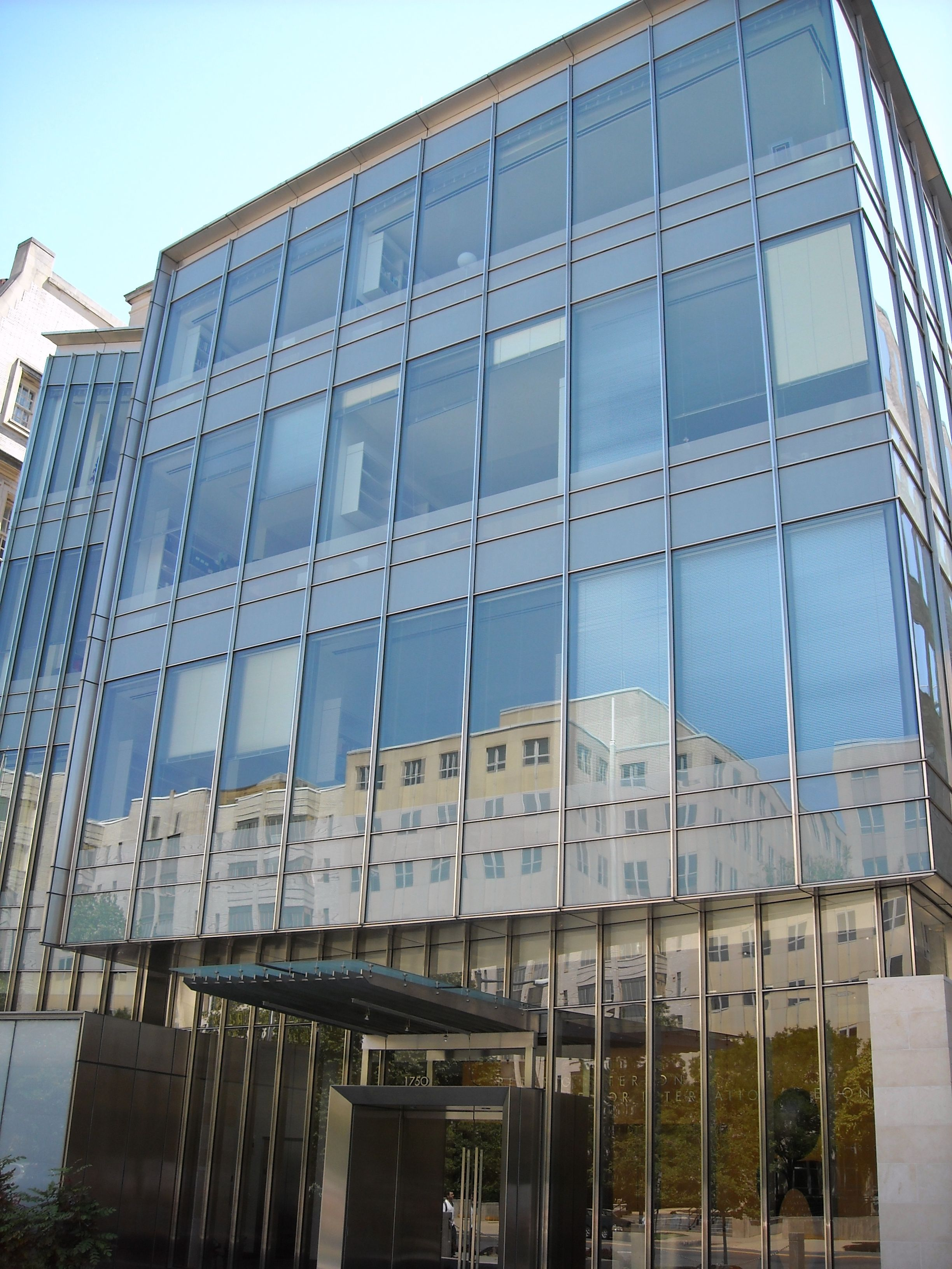 The (hard-right) Peterson Institute, Massachusetts Avenue, Washington, D.C.